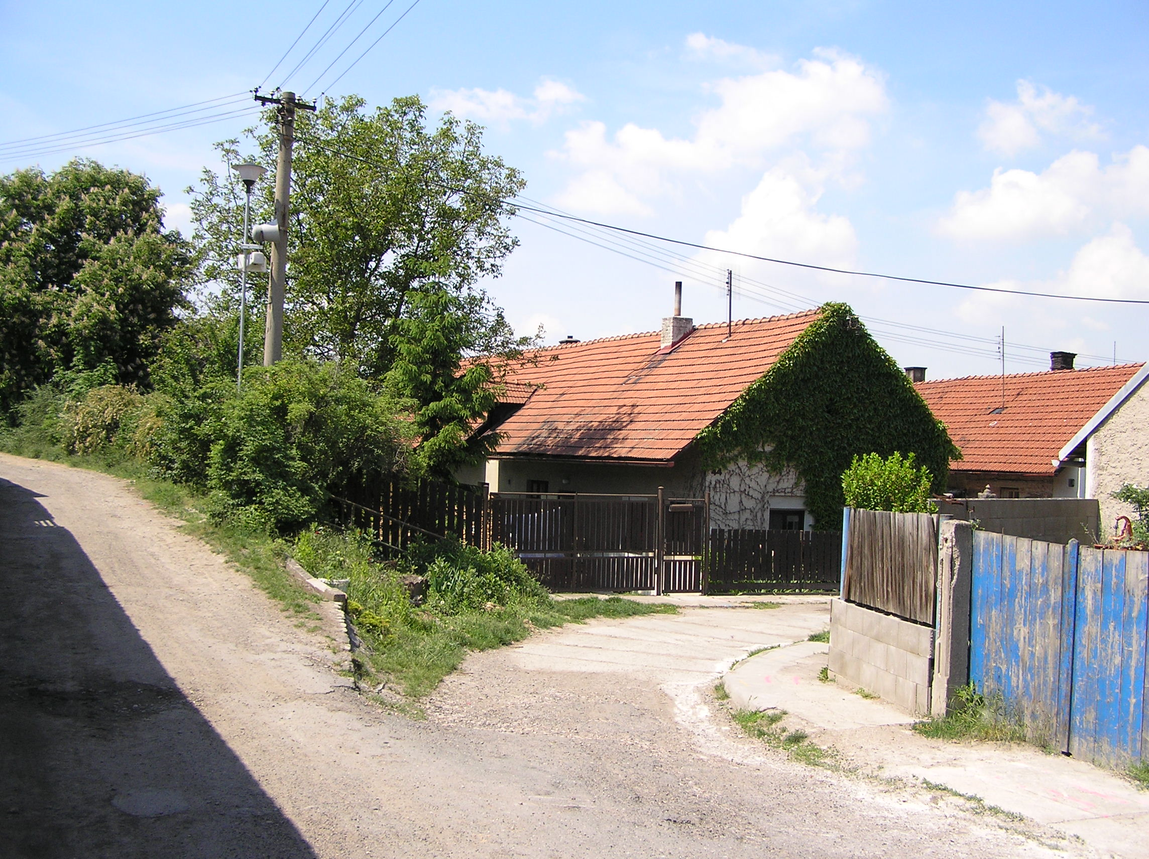 Kamenné Zboží, the houses, which are built in a former quarry